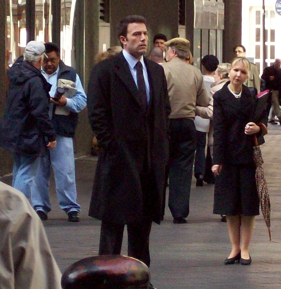 Ben Affleck filming the 2010 drama The Company Men in Boston.